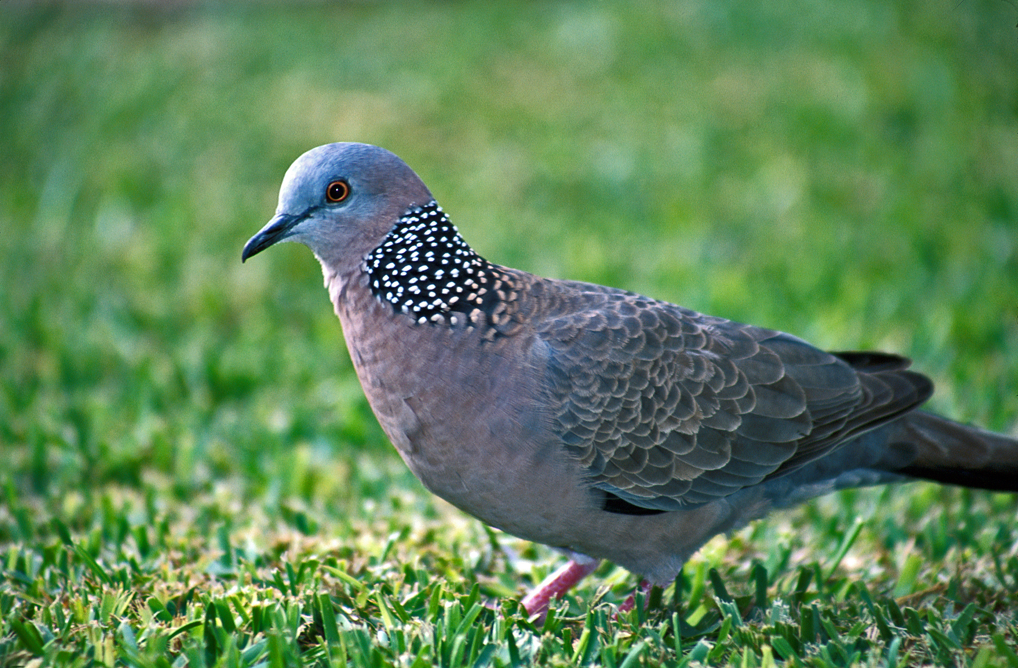 Spotted dove (Streptopelia chinensis), Maui, Hawaii